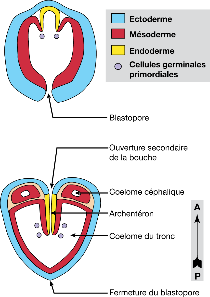 Chaetognath development (after Doncaster 1902)